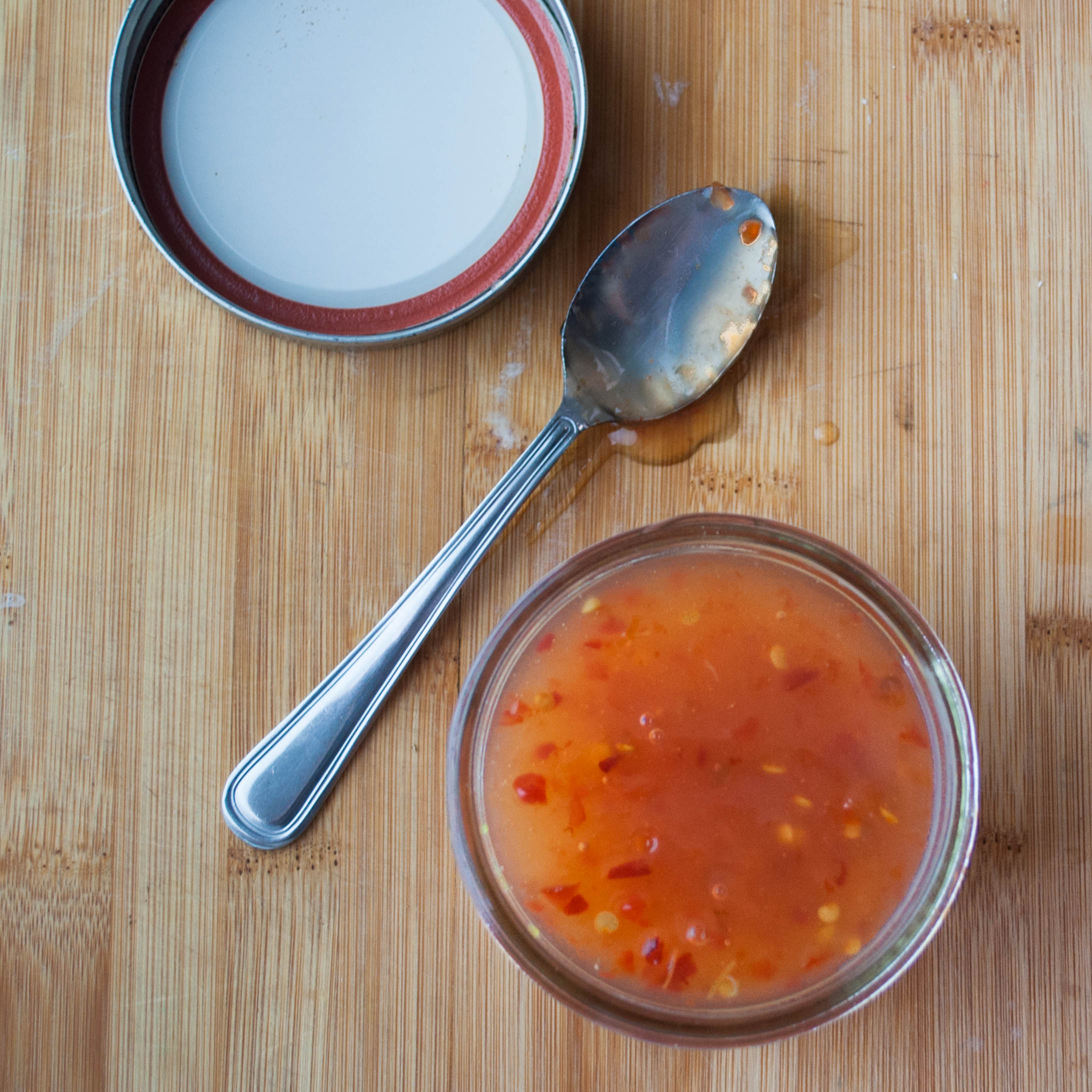 Sweet Chili Sauce